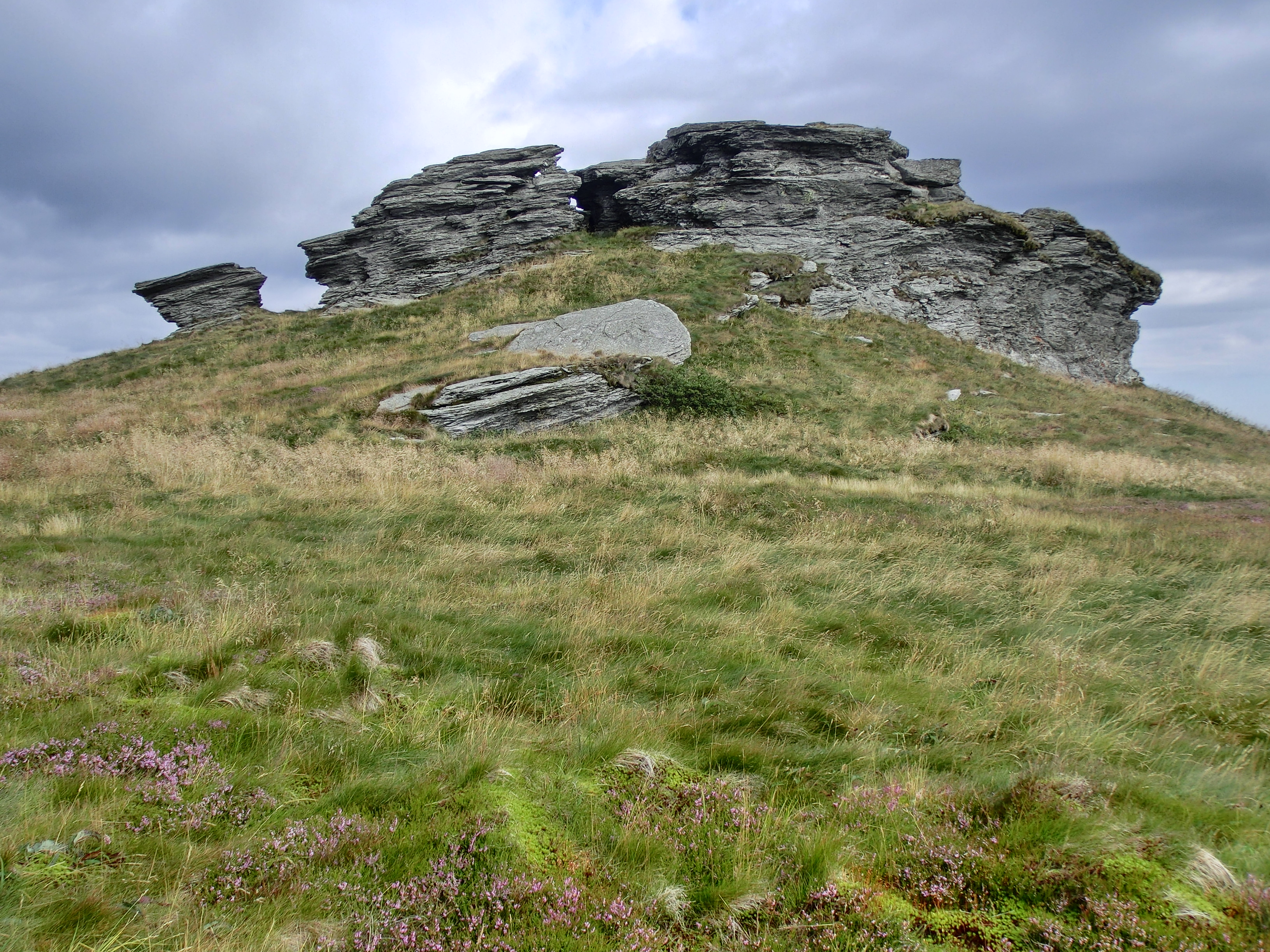 Petrovy kameny